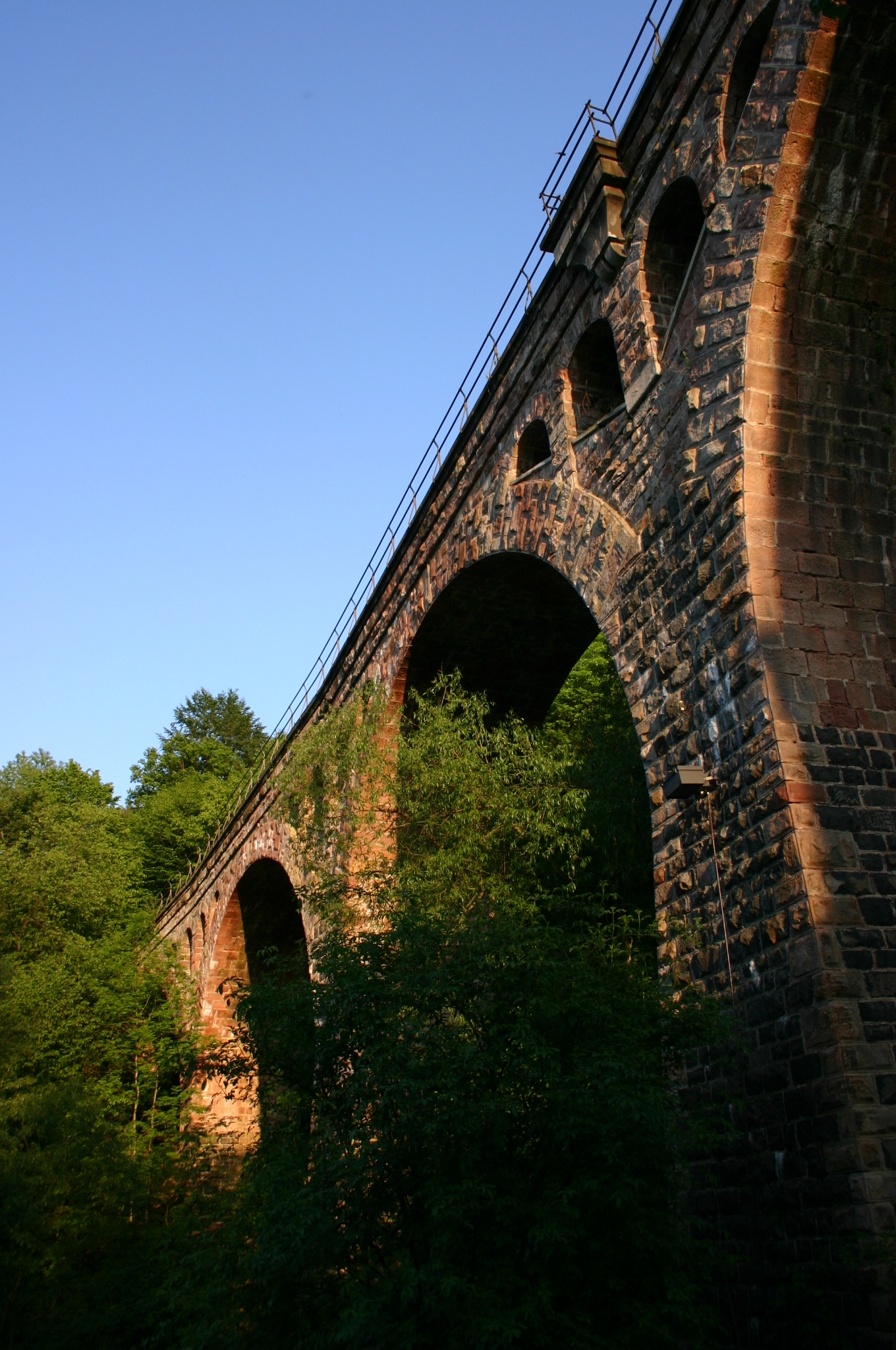 Viaduct for trains in Bad Endbach, Hesse, Germany